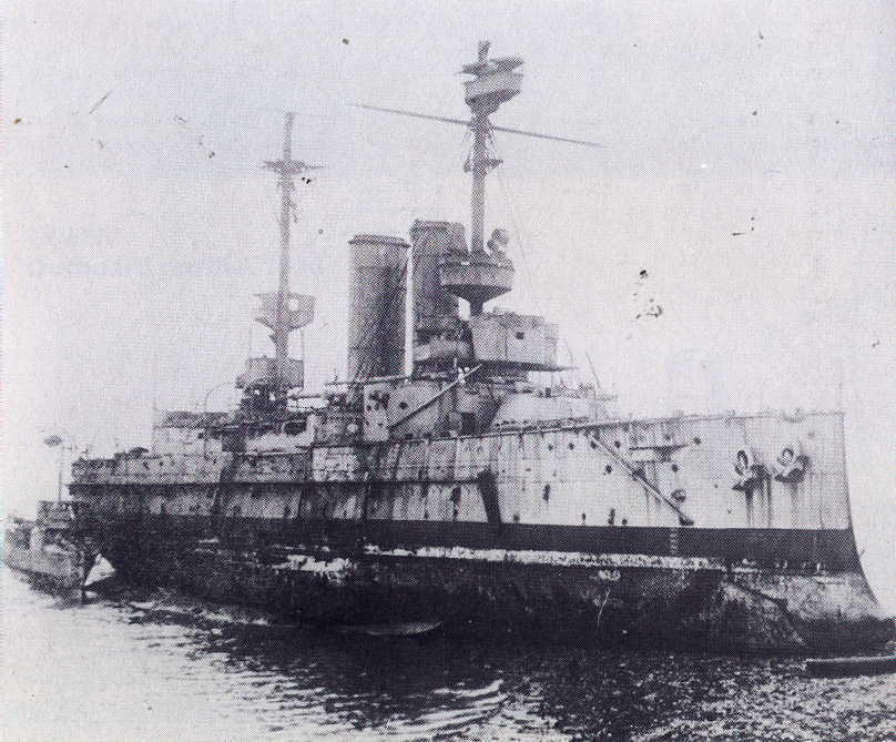 HMS Prince of Wales (1902) awaiting scrapping in 1920